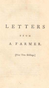 Image of the first page of John Dickinson's "Letters from a Farmer in Pennsylvania," retrieved from the URL . It is a fairly low resolution image of a very important document in American history.